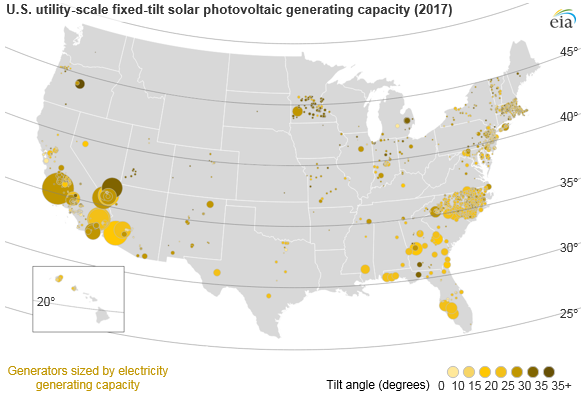 Nearly 40%, or 10.4 gigawatts (GW), of utility-scale solar photovoltaic (PV) systems operating in the United States at the end of 2017 were fixed-tilt PV systems rather than tracking systems. Of the utility-scale fixed-tilt solar PV systems, 76% of the capacity was installed at a fixed angle between 20 degrees and 30 degrees from the horizon. October 26, 2018